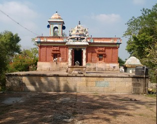 Tiruvaikal vaikalnathar temple திருவைகல் வைகல்நாதர் கோயில்